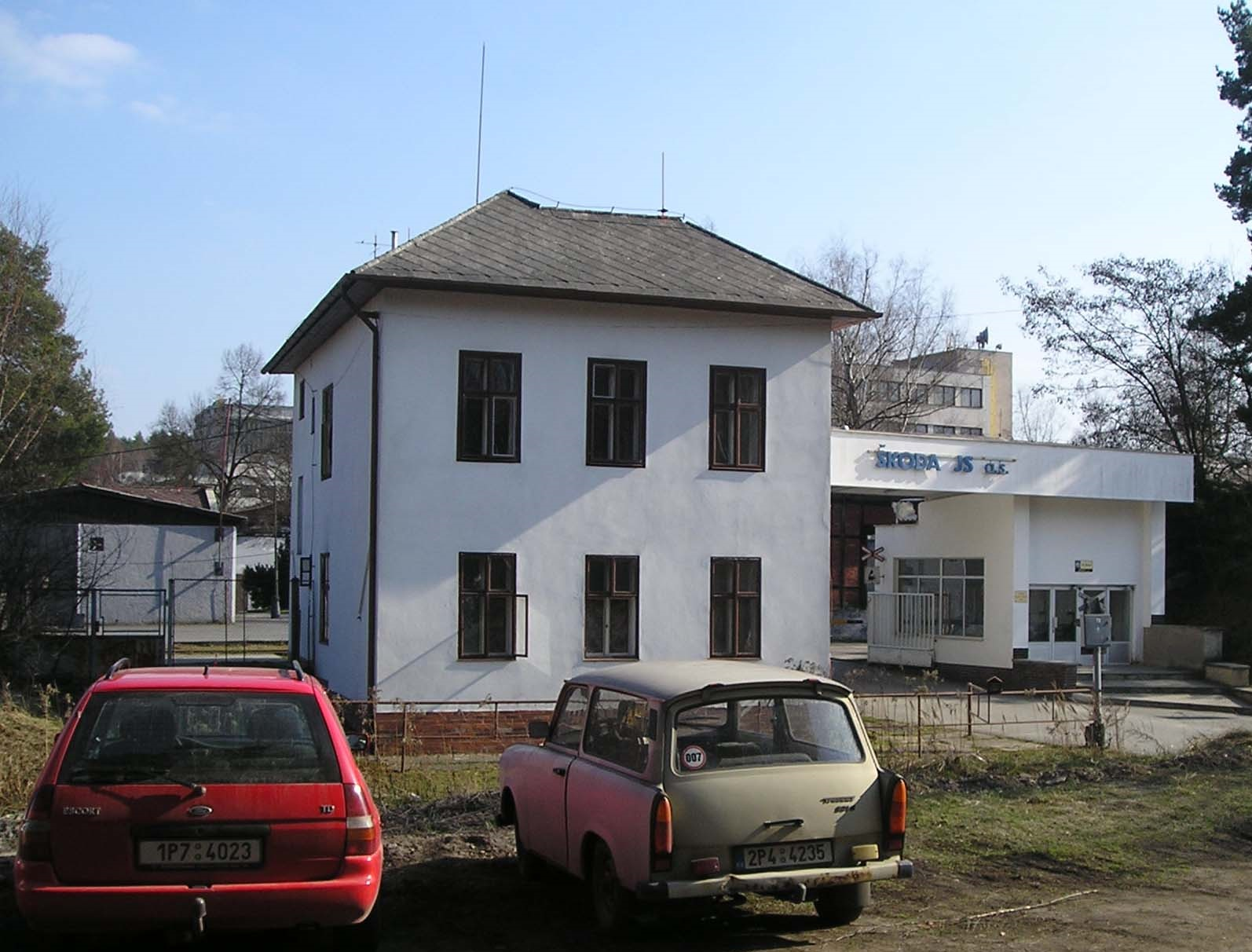 Plzeň - Bolevec, Škoda JS Company, entry gate